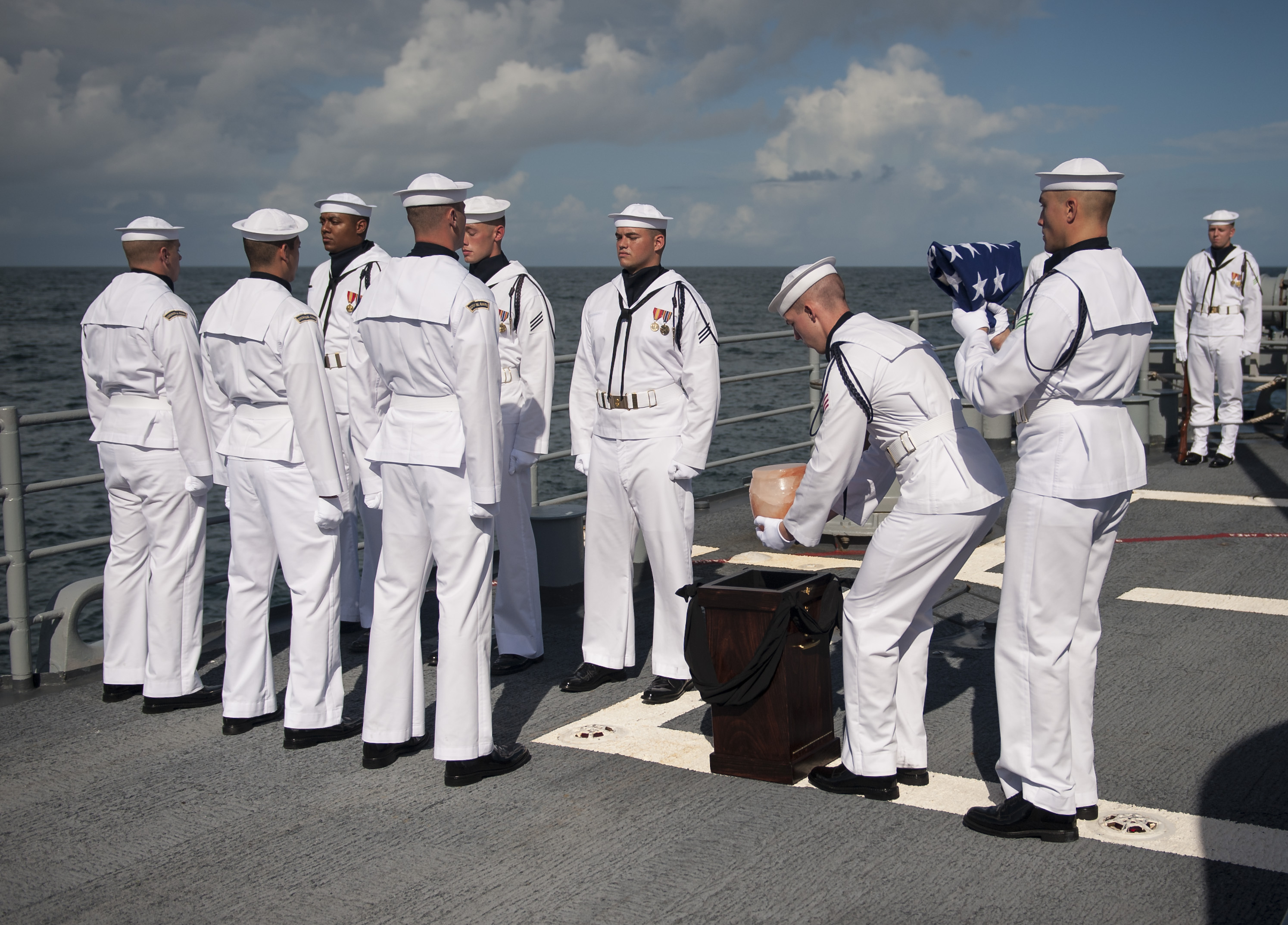 ATLANTIC OCEAN (Sept. 14, 2012) Sailors carry the cremains of Apollo 11 astronaut Neil Armstrong during a burial at sea service aboard the guided-missile cruiser USS Philippine Sea (CG 58) in the Atlantic Ocean. Armstrong, the first man to walk on the moon during the 1969 Apollo 11 mission, died Saturday, Aug. 25. He was 82. (U.S. Navy photo courtesy of NASA by Bill Ingalls/Released) 120914-O-ZZ999-102 Join the conversation navylive.dodlive.mil